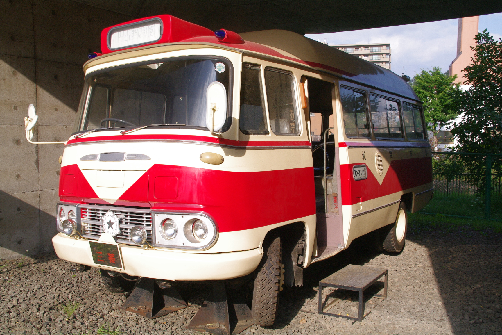 Sapporo municipal bus old mini bus.